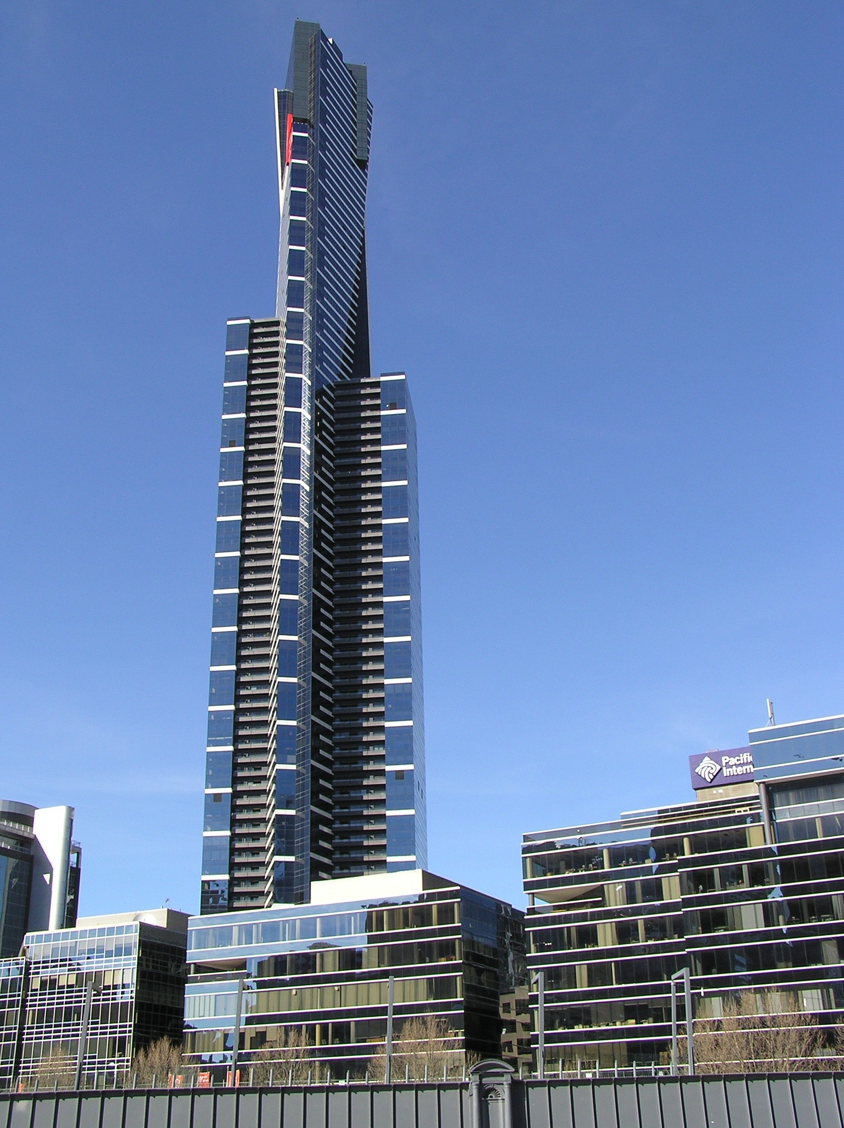 Eureka Tower.